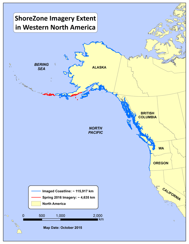 ShoreZone is a project to inventory the geology and biology of North American shorelines. The project currently extends from Oregon to Alaska with spatially contiguous imagery and mapped habitat attributes.